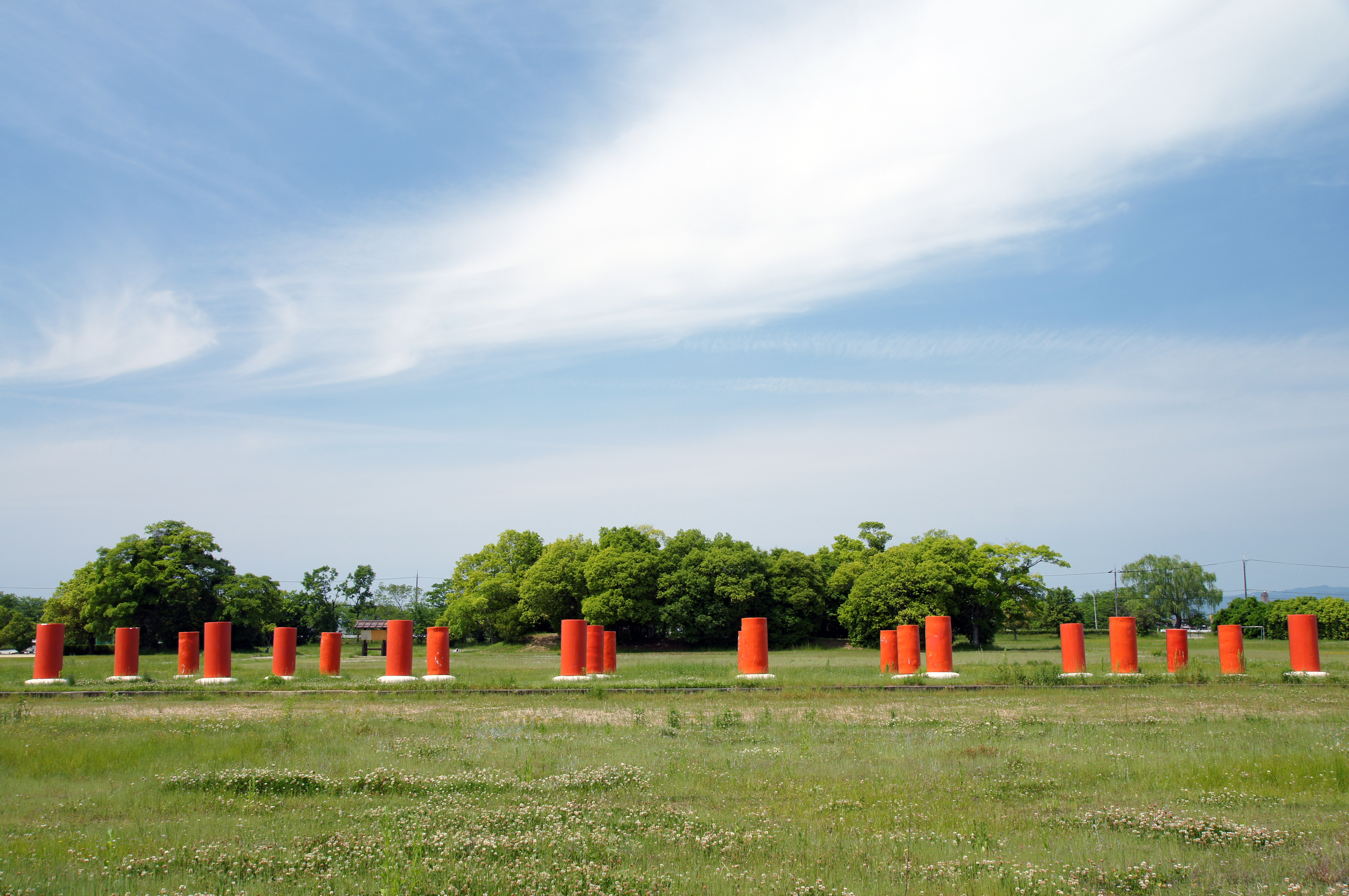 Fujiwara-kyō ruins in Kashihara, Nara prefecture, Japan